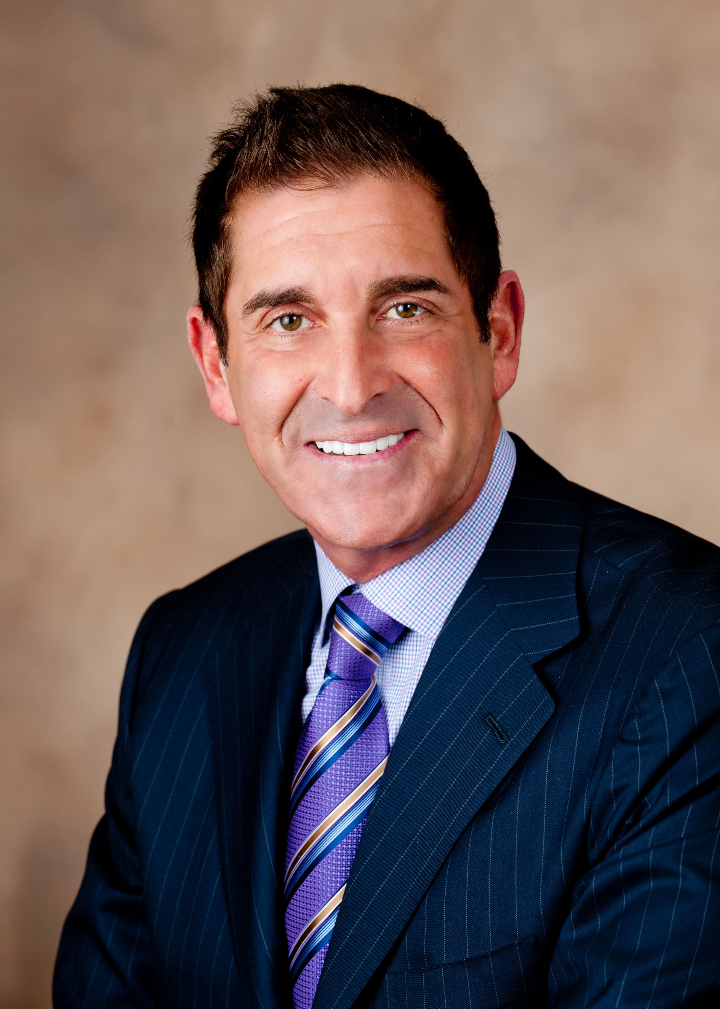 New York State Senator Jeffrey D. Klein - Temporary President and IDC Coalition Leader, (D) 34th Senate District